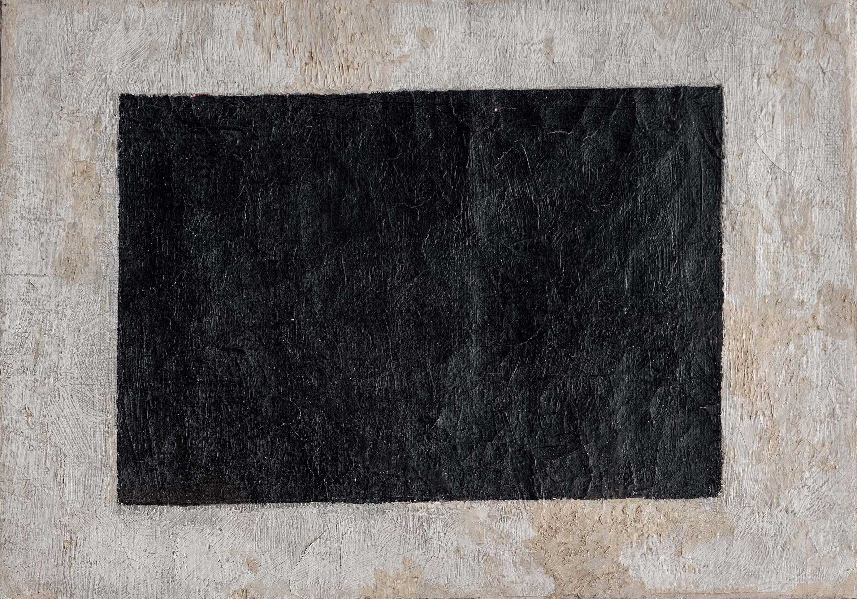 Kazimir Malevich